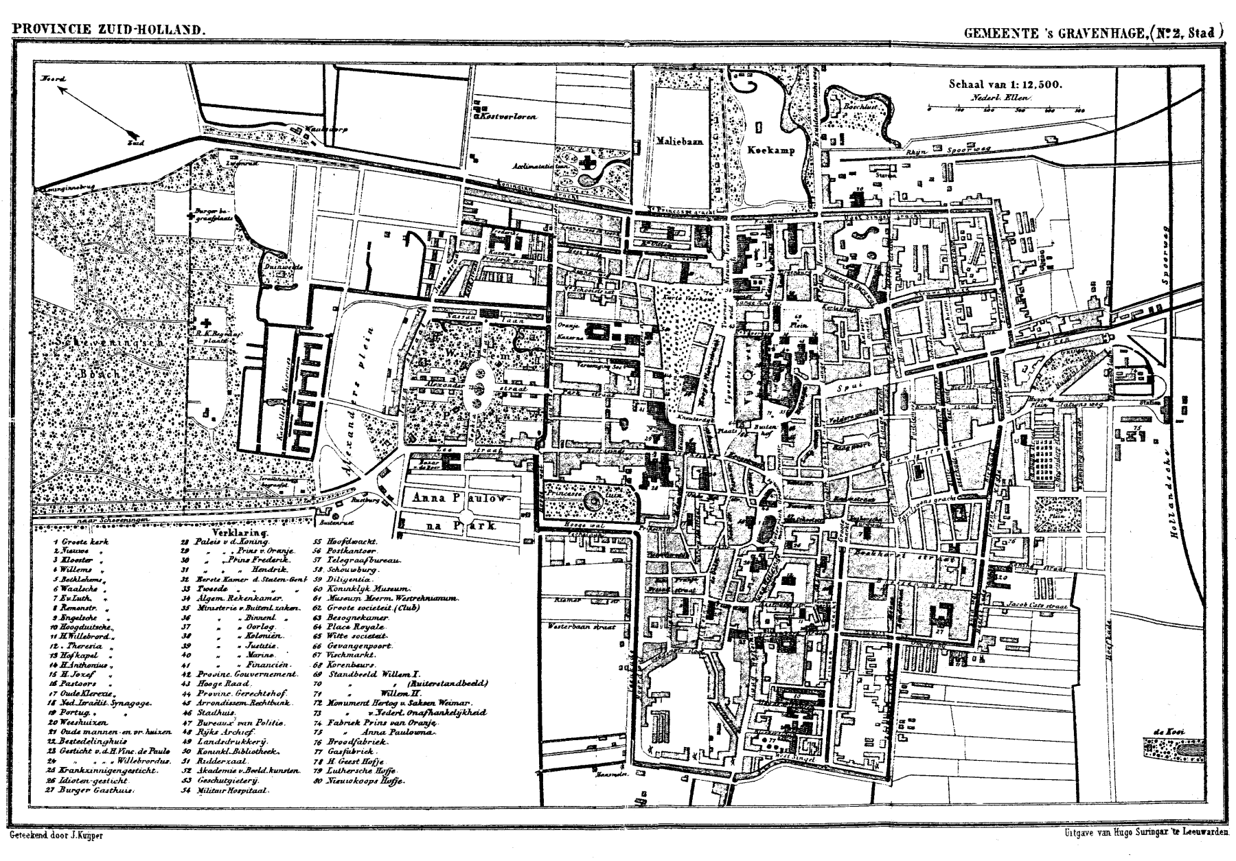 Historic map of The Hague, the Netherlands